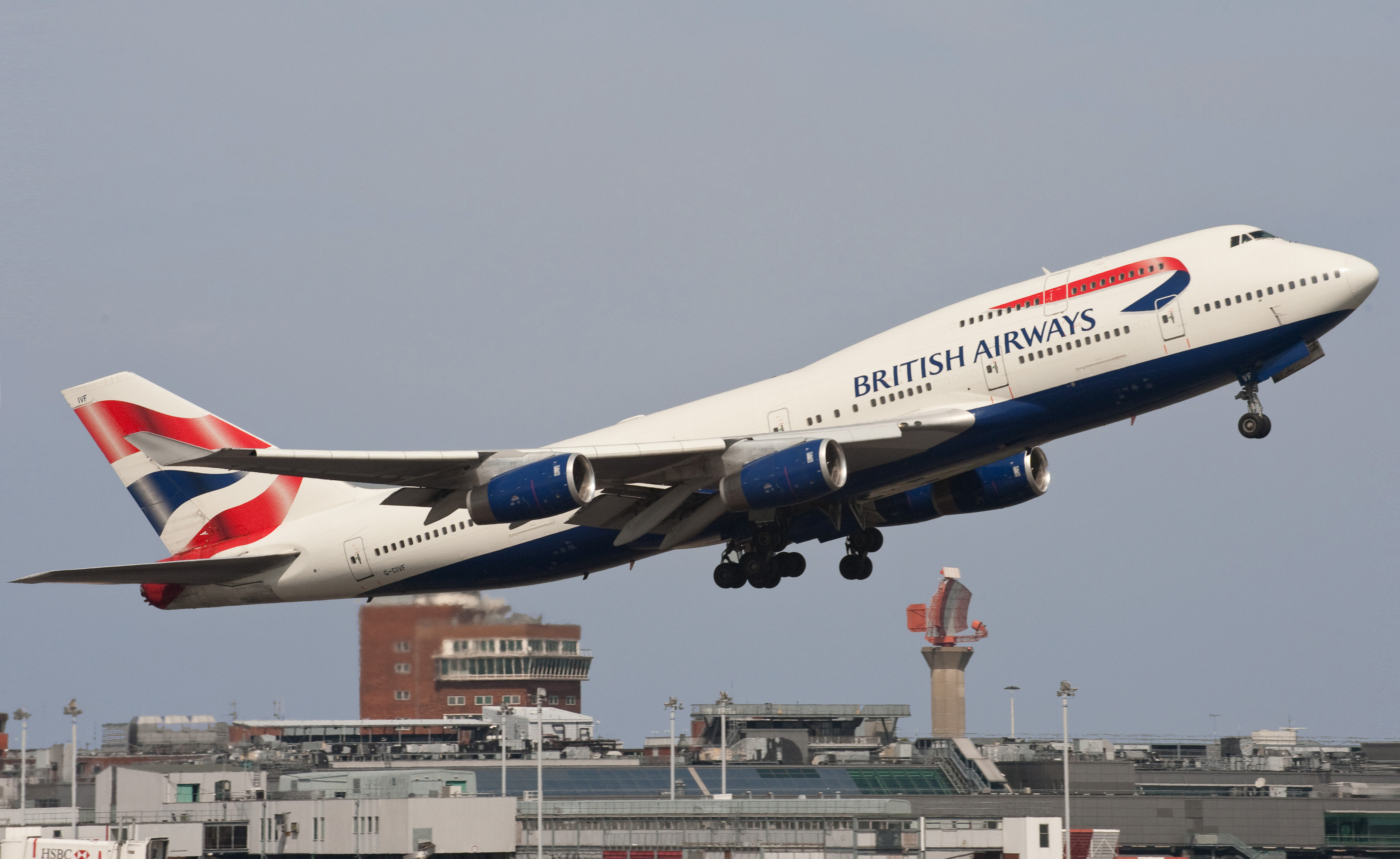 British Airways - Boeing 747 - London Heathrow